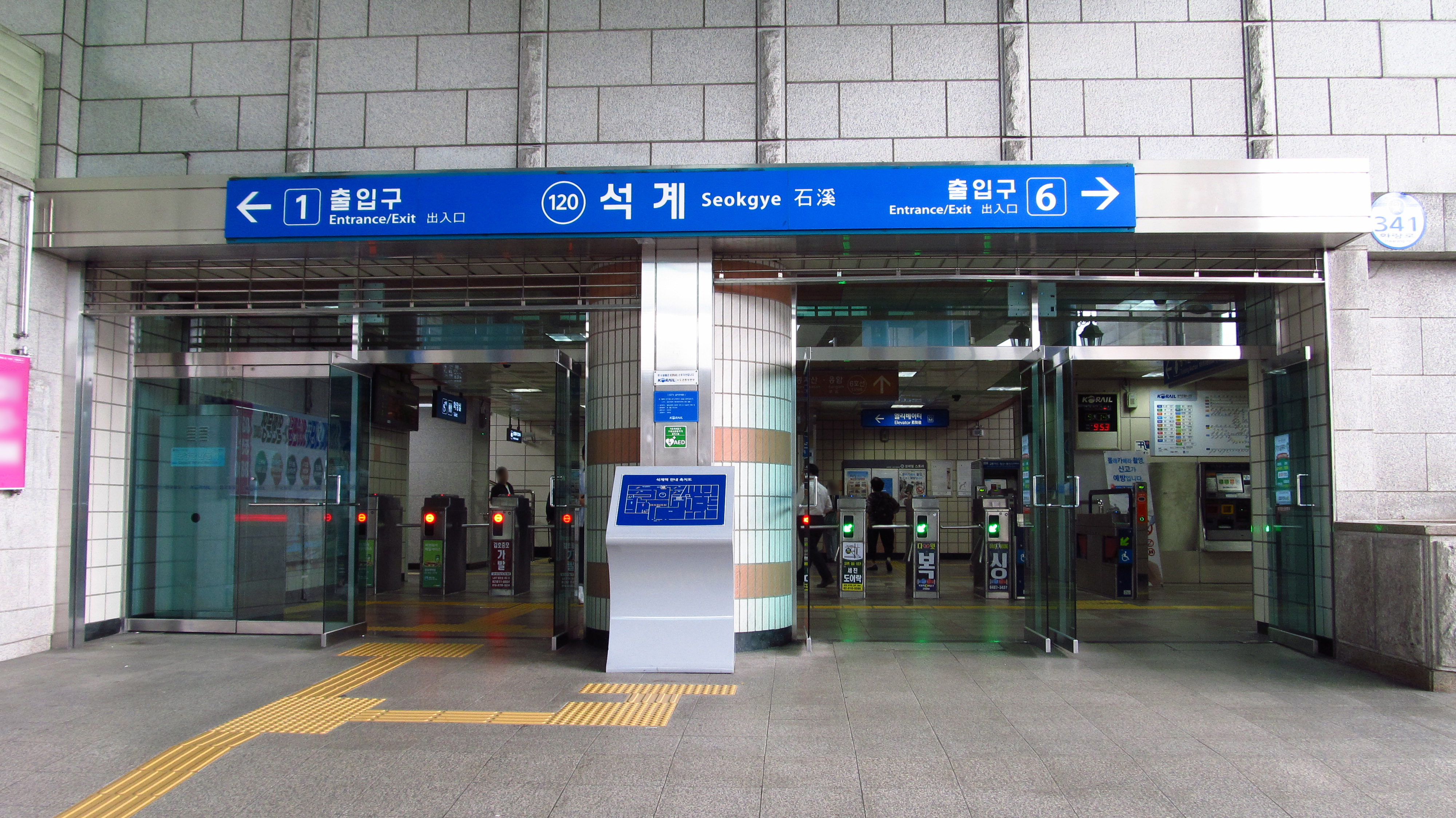 The no.1 and no.6 entrance to Seokgye Station on Seoul Subway Line 1 in Nowon-gu, Seoul, Republic of Korea(South Korea)